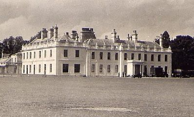 Poltimore House, Devon, photograph c.1930